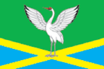 Flag of Zabaykalskoe, Zabaykalsky Krai, Russia